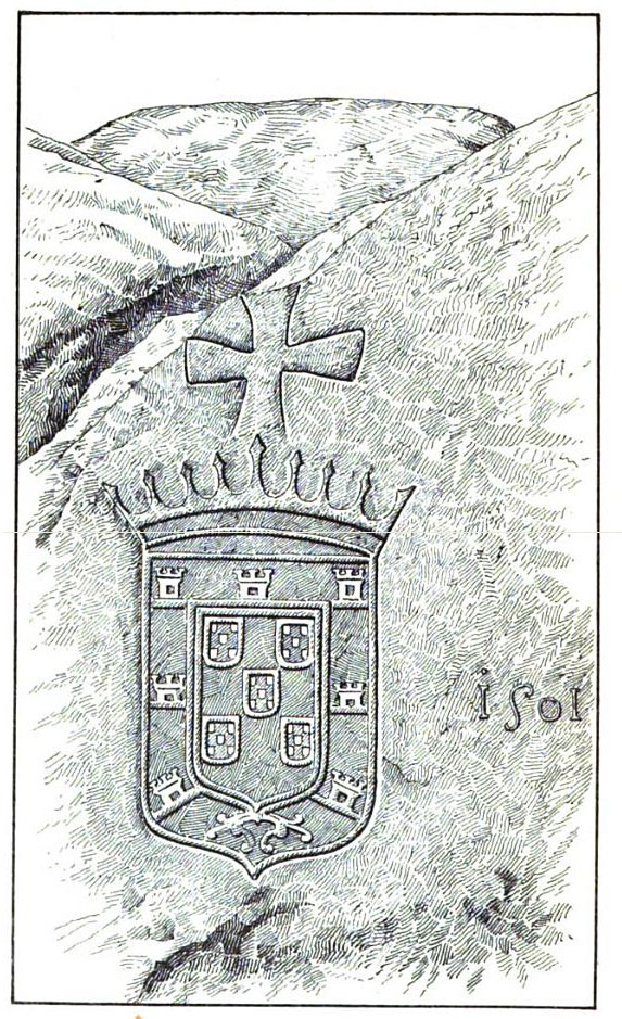 Lithograph of a Portuguese inscription (dated 1501) found on a boulder uncovered in 1898 during excavations underneath the old Breakwater Office in Colombo, Sri Lanka, and published 1899 in "Antiquarian Discovery Relating to the Portuguese in Ceylon", Journal of the Ceylon Branch of the Royal Asiatic Society, Vol. 16, p.15-29.